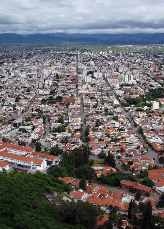 View of Salta City from Cerro San Bernardo. Picture taken by me in 2005 Mariano 09:15, 18 October 2005 (UTC)